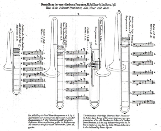 A chart of which musical notes may be obtained in which slide positions for alto trombone, tenor trombone, and bass trombone.